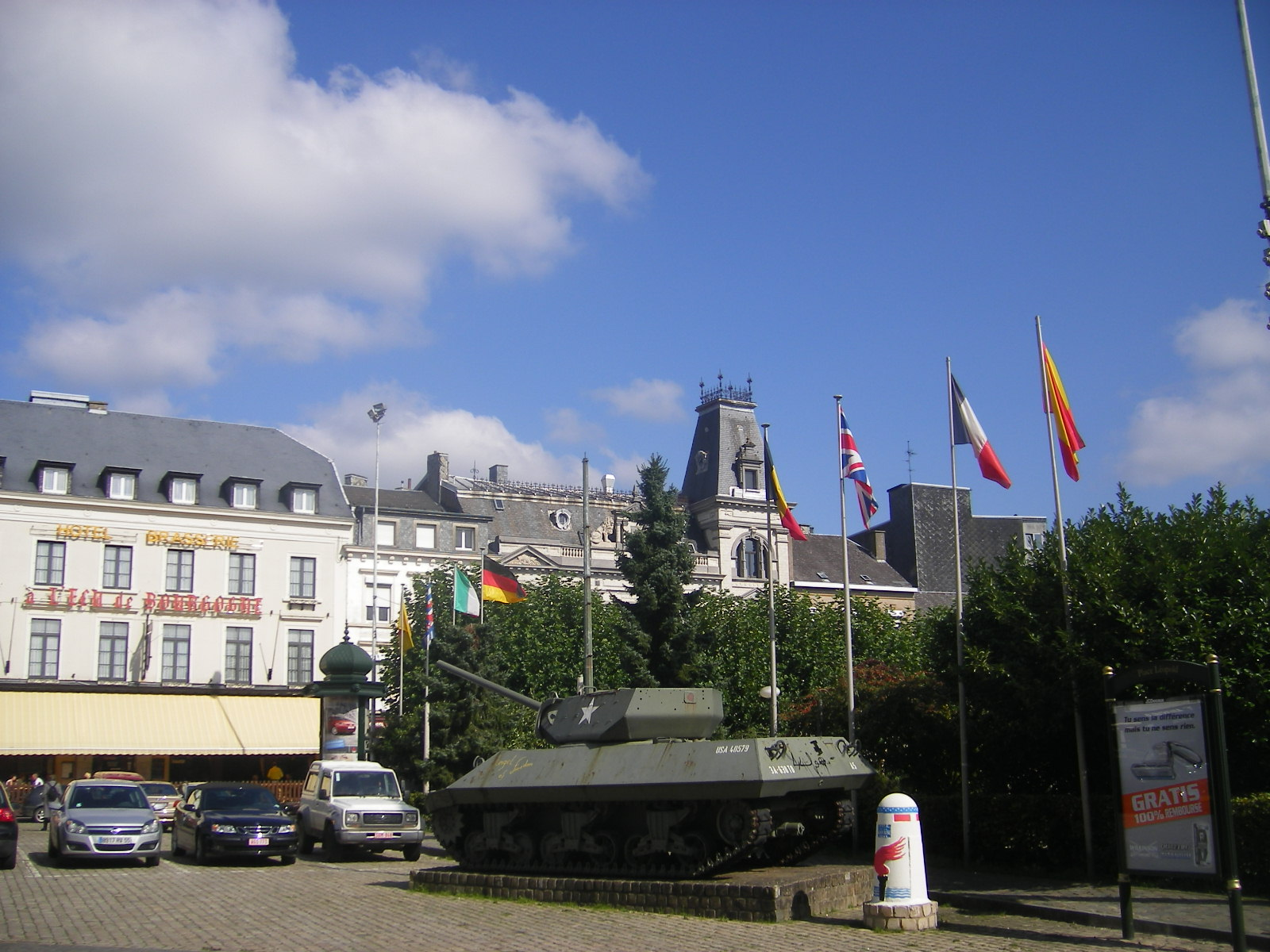 American tank and stone marker on Liberty Road in Arlon, Belgium.